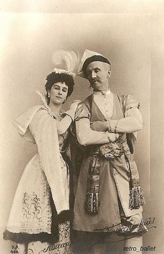 Mathilde and Feliks Kschessinski in Mazurka dance. Benefice performance of F. Kschessinski at the Mariinsky Theatre celebrating 60 years of his ballet career, February 8th, 1898